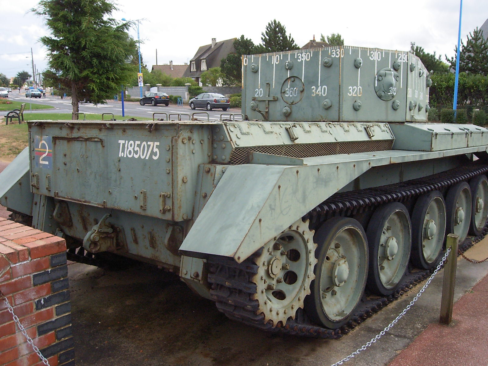 Centaur IV behind Sword Beach, Normandy, France